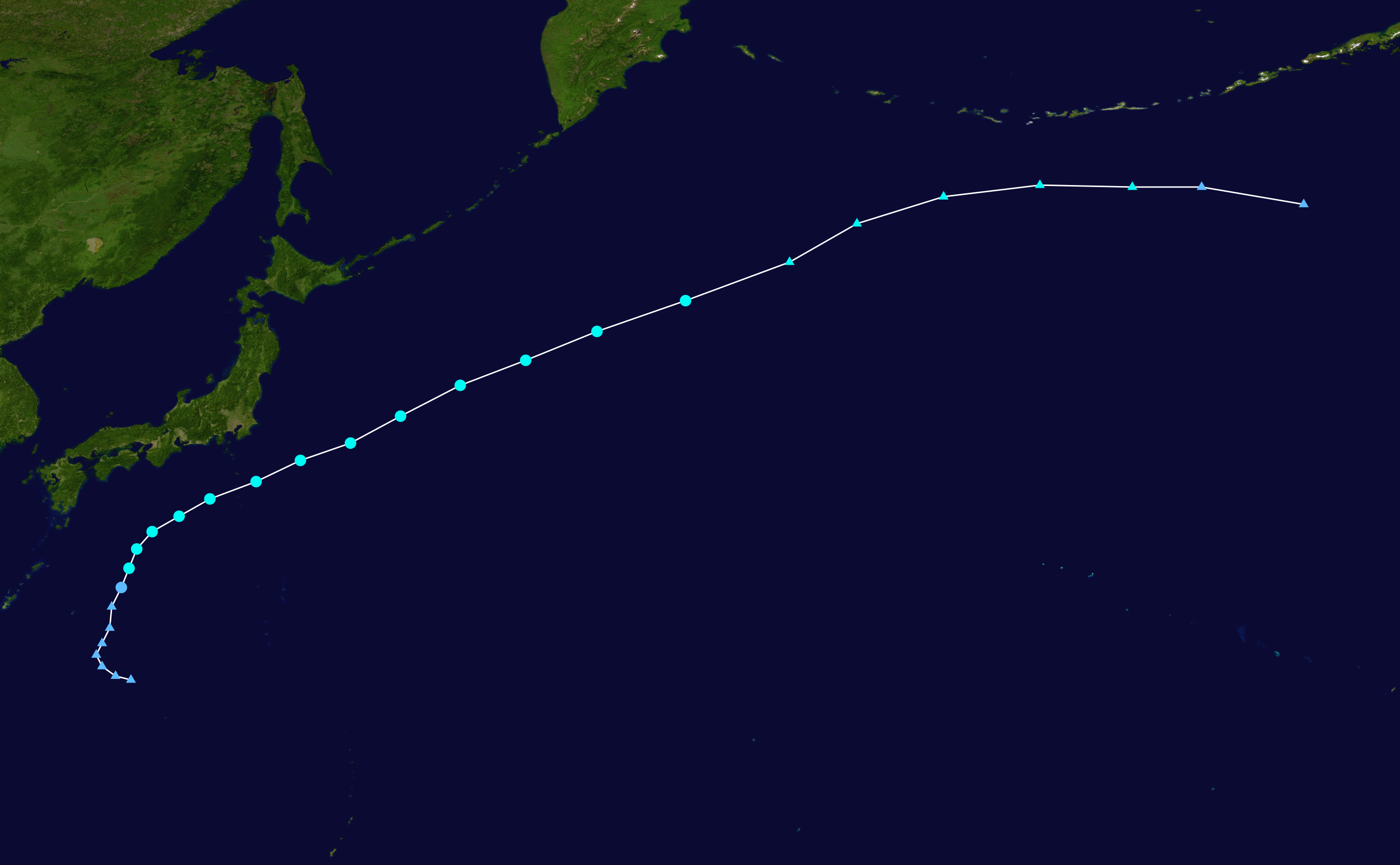 Track map of Severe Tropical Storm Vongfong of the 2008 Pacific typhoon season. The points show the location of the storm at 6-hour intervals. The colour represents the storm's maximum sustained wind speeds as classified in the Saffir–Simpson scale (see below), and the shape of the data points represent the nature of the storm, according to the legend below. Saffir–Simpson scale Tropical depression≤38 mph≤62 km/h Category 3111–129 mph178–208 km/h Tropical storm39–73 mph63–118 km/h Category 4130–156 mph209–251 km/h Category 174–95 mph119–153 km/h Category 5≥157 mph≥252 km/h Category 296–110 mph154–177 km/h Unknown Storm type Tropical cyclone Subtropical cyclone Extratropical cyclone / Remnant low / Tropical disturbance / Monsoon depression